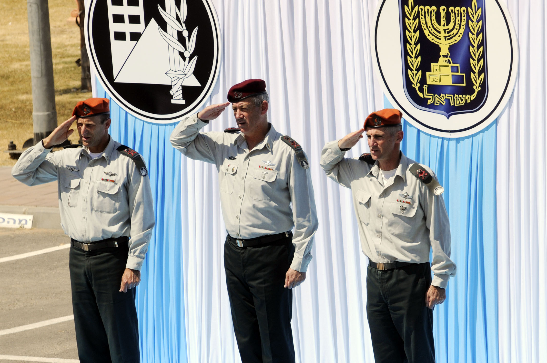 June 15, 2011 This morning, the replacement ceremony for the GOC Home Front Command took place at the Command's headquarters in Ramle. The IDF Chief of the General Staff, Maj. Gen. Benny Gantz led the ceremony, in which Maj. Gen. Eyal Eisenberg replaced Maj. Gen. Yair Golan as GOC Home Front Command. The outgoing commander of the Home Front Command, Maj. Gen. Golan served for three and a half years in the position and is now set to be appointed as the new GOC Northern Command. The Chief of Staff, Lt. Gen. Benny Gantz spoke at the ceremony about the significance of the Home Front Command: "This is a sensitive time and it is the IDF's duty to stand guard and make all efforts to ensure that Israel remains an island of security. The current reality of instability further complicates the Home Front Command's mission." Pictured (l-r): Maj. Gen. Eyal Eisenberg, Lt. Gen. Benny Gantz, Maj. Gen. Yair Golan